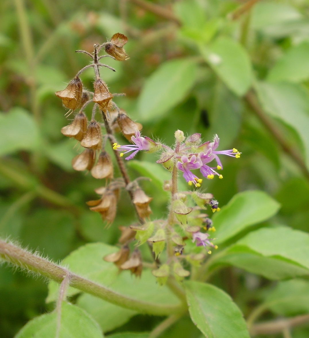 Close up image of tulsi flowers and pods, taken at Salem, Tamil Nadu, India.